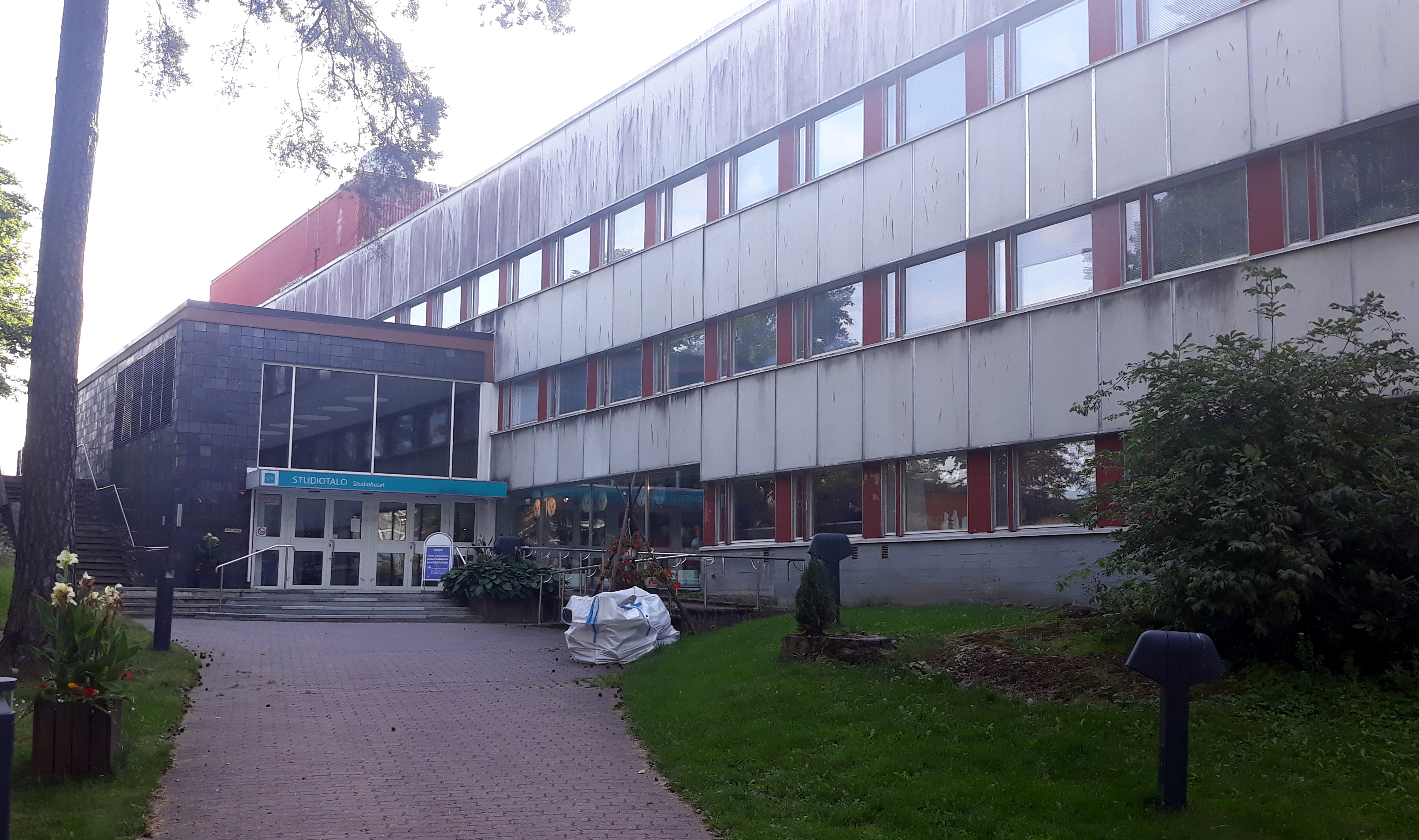 Yle's Studiotalo (Studio House) in Länsi-Pasila, Helsinki.